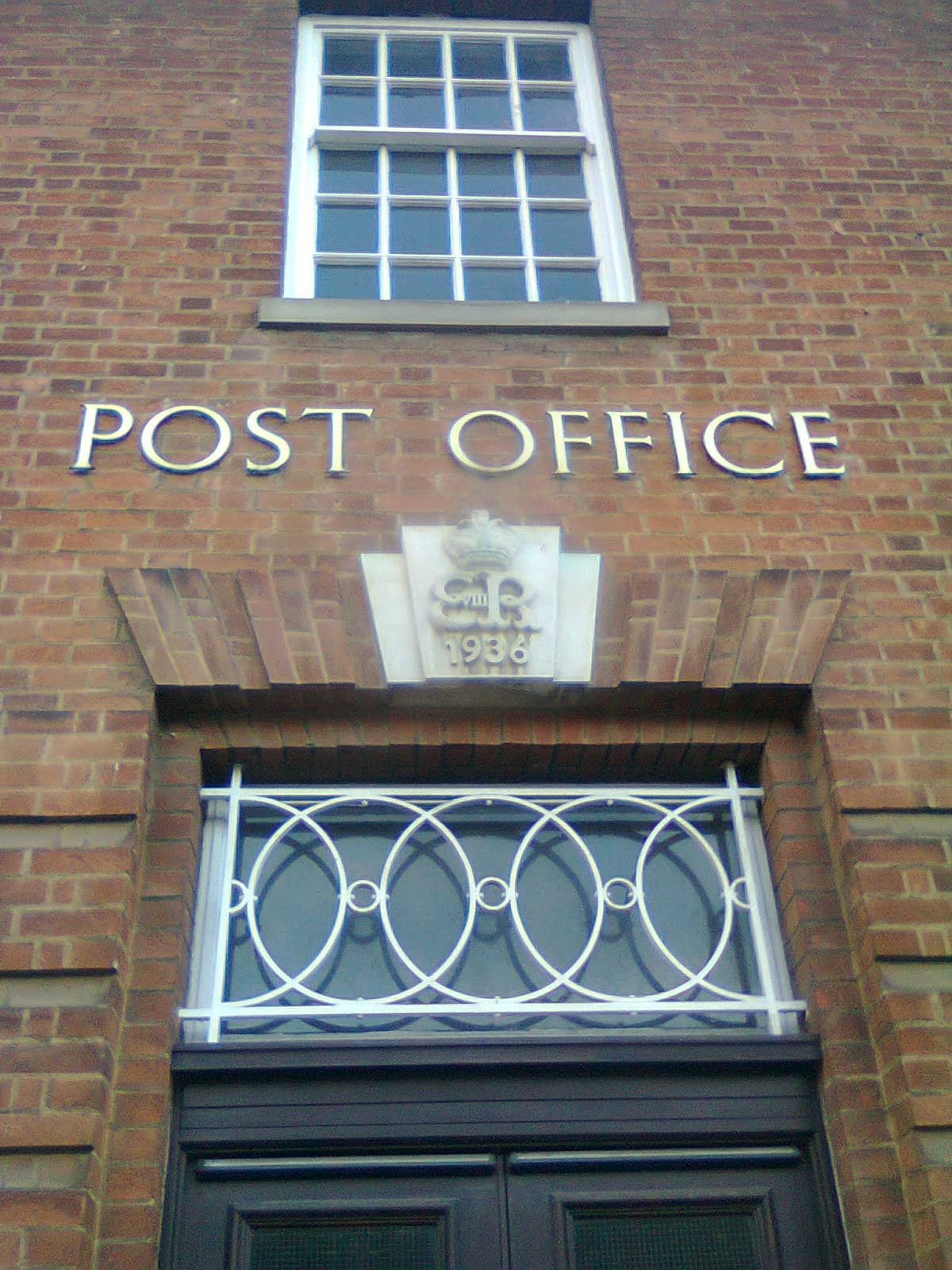 A photo of Edward VIII's royal cypher on March, Cambridgeshire's Sorting Office (previously post office). Unusual because of course Edward never was crowned.